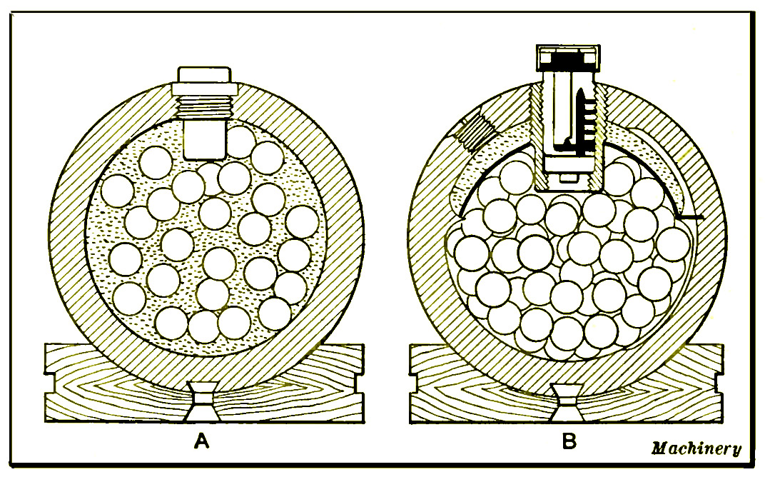 Original shell designed by Lieut. Henry Shrapnel and Col. Boxer's improvement